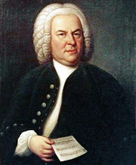 Johann Sebastian Bach (aged 61) on a portrait, copy or second version of the 1746 canvas